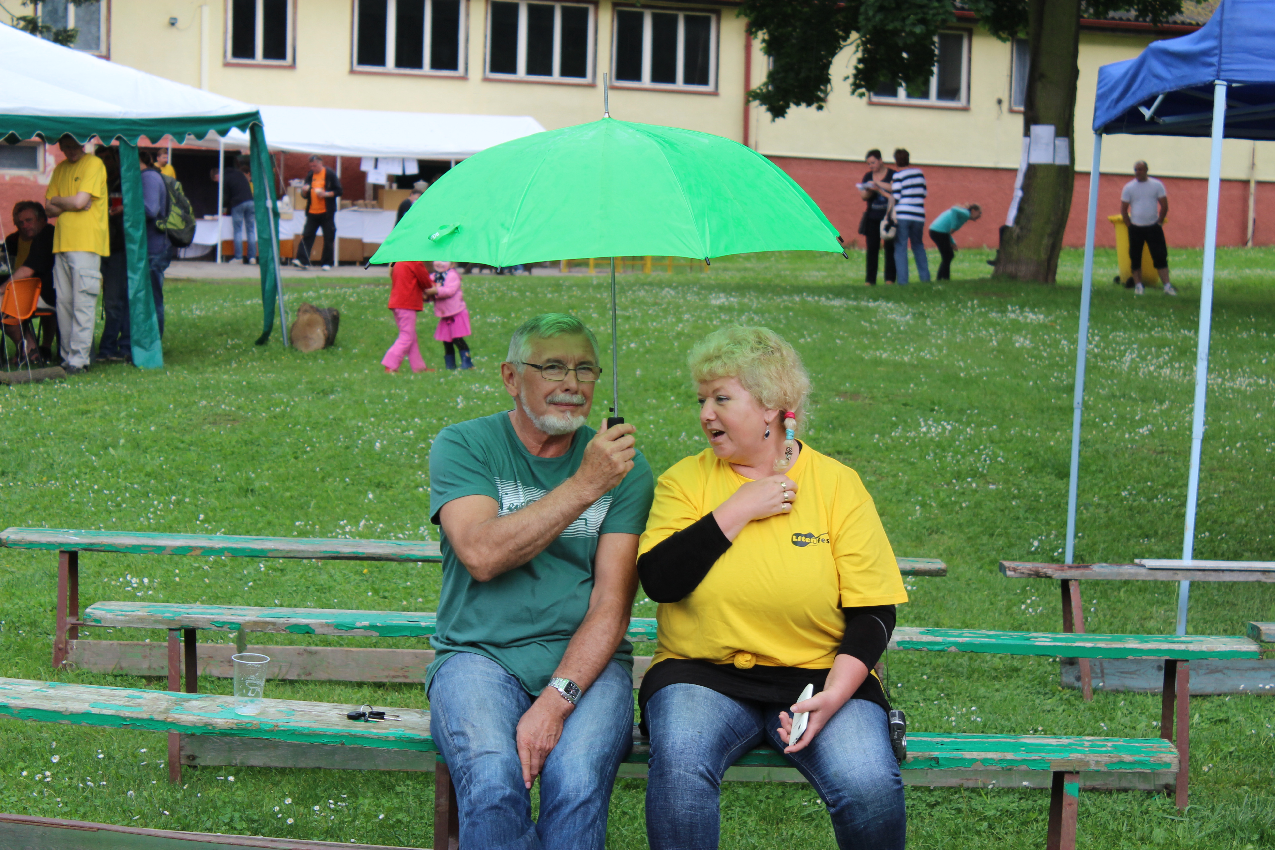 Liteňfest - Folk & Country Festival in Liteň (District Beroun)